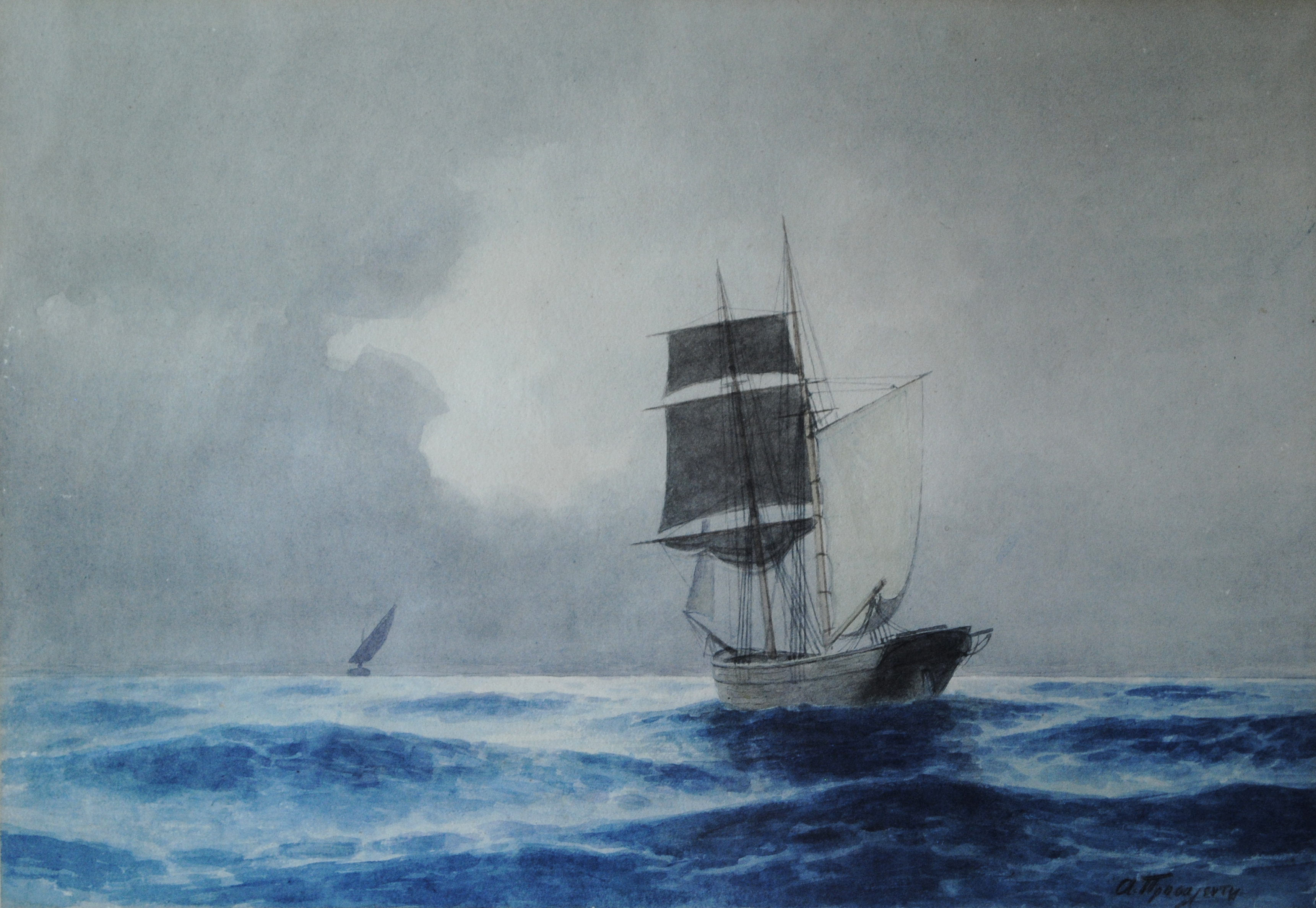 Aimilios Prosalentis, watercolor on canvas, 30 x 45 cm, Private Collection